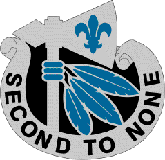 2nd Infantry Division Distinctive Unit Insignia